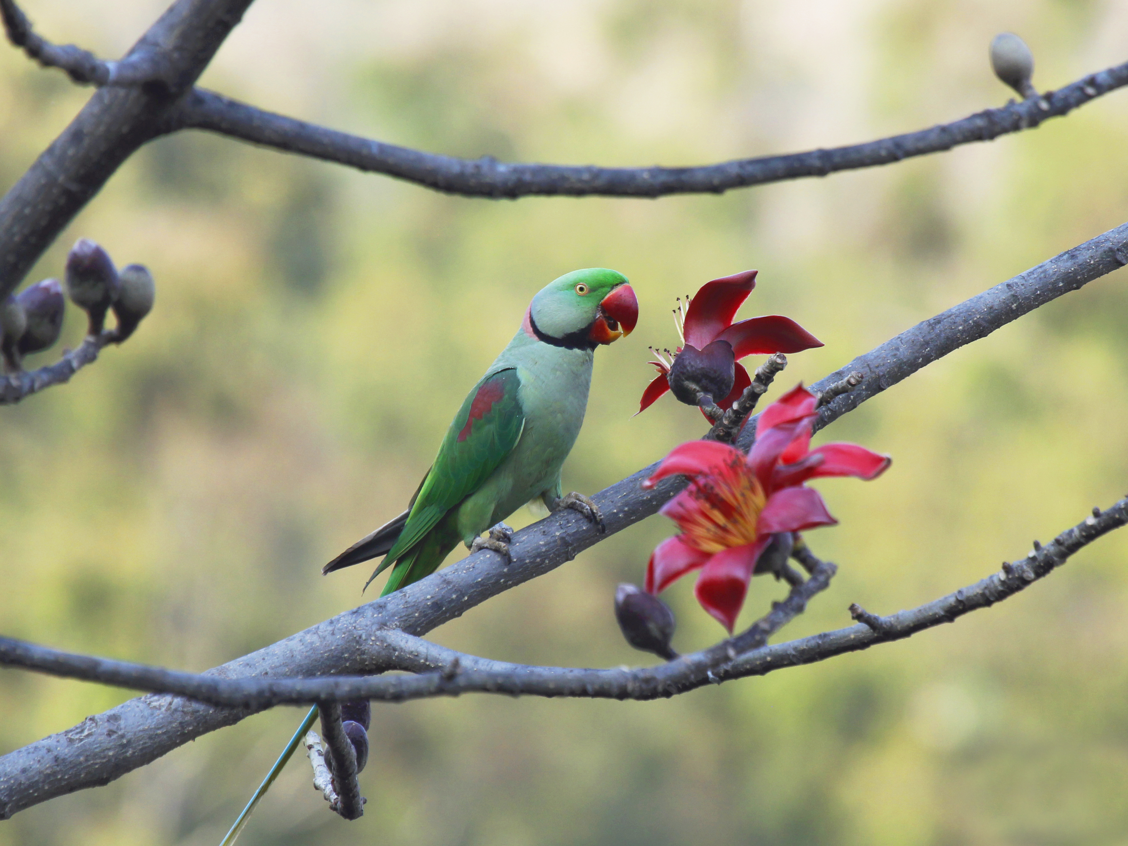 Kalakote, Rajouri Jammu and Kashmir